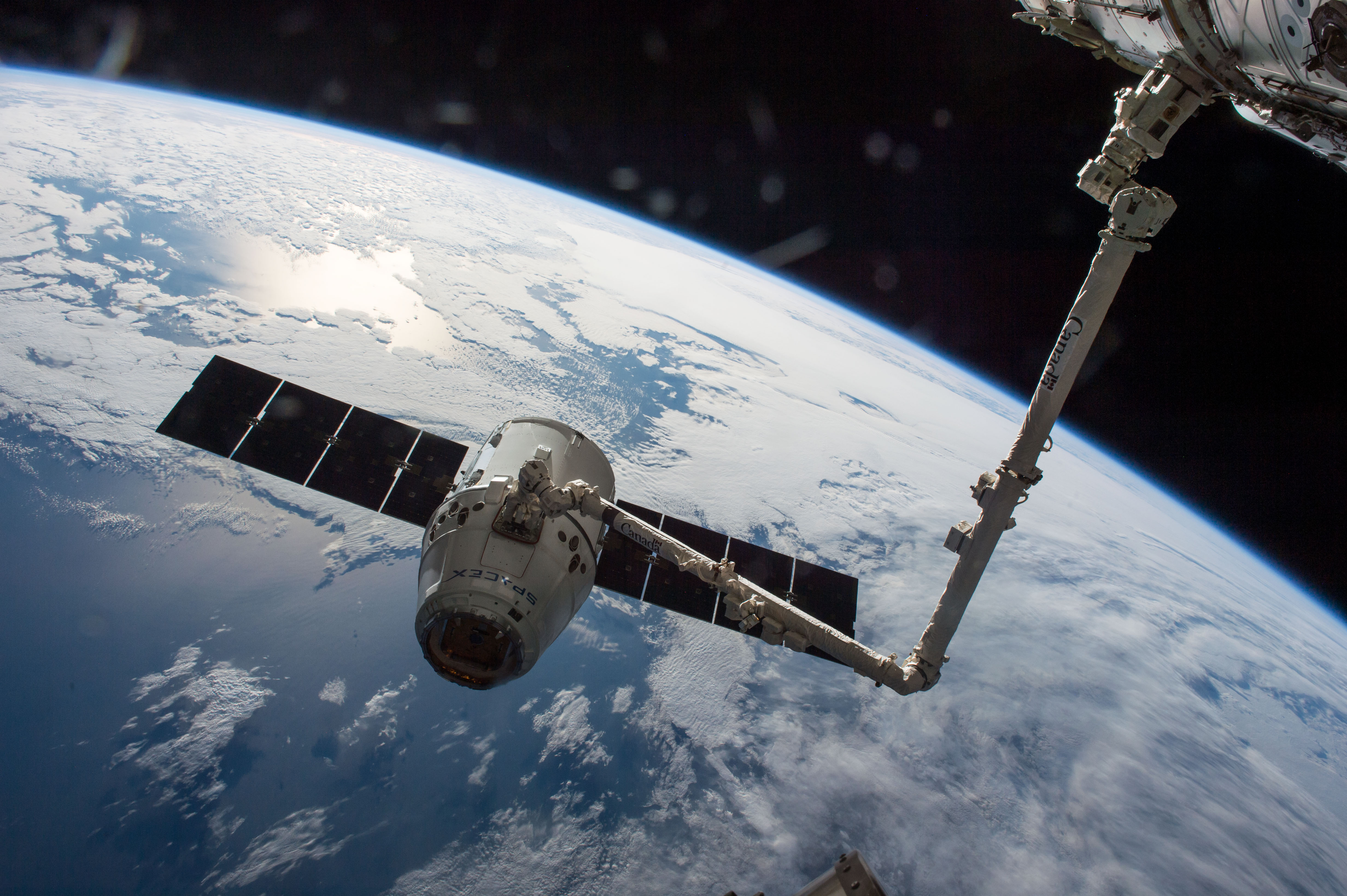 The SpaceX Dragon cargo spaceship is grappled by the International Space Station's Canadarm2. The spacecraft is delivering about 7,000 pounds of science and research investigations, including the Bigelow Expandable Activity Module, known as BEAM. Dragon's arrival marked the first time two commercial cargo vehicles have been docked simultaneously at the space station. Orbital ATK's Cygnus spacecraft arrived to the station just over two weeks ago. With the arrival of Dragon, the space station ties the record for most vehicles on station at one time – six.